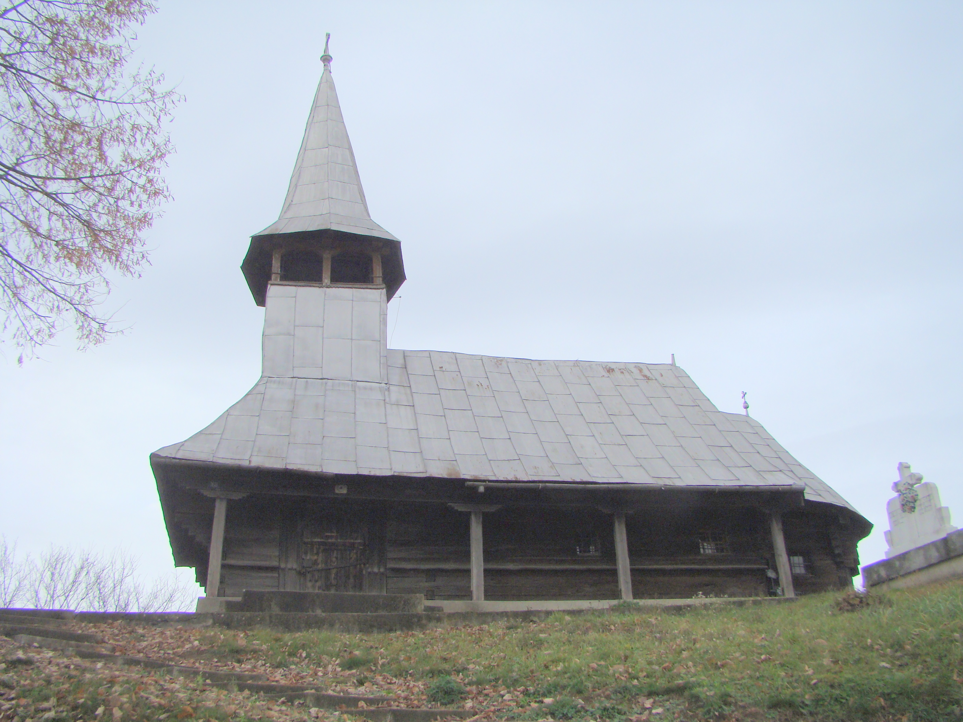 Wooden church in Lugașu de Sus, Bihor county, Romania